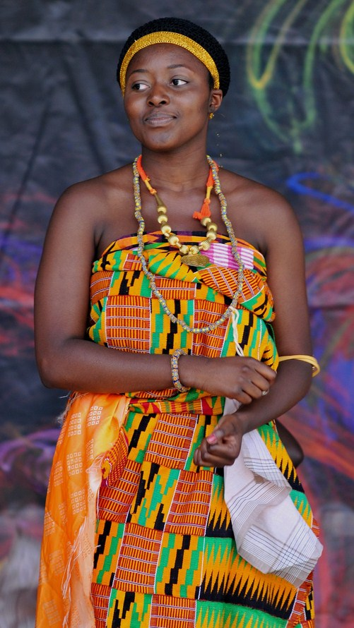 Akan girl dancing cultural Akan Dance